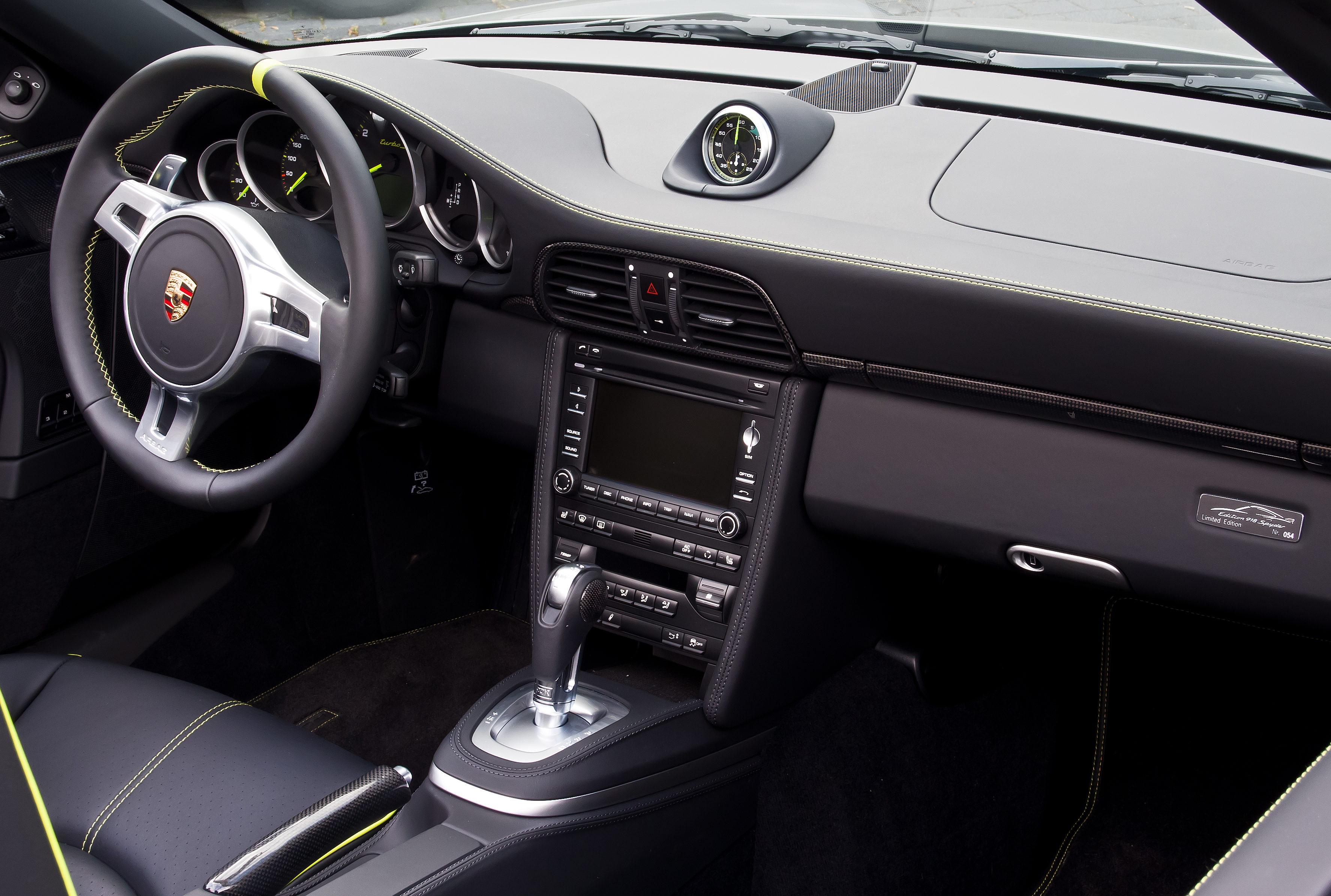 Porsche 911 Turbo S Cabriolet Edition 918 Spyder (997, Facelift)